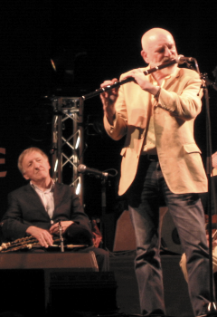 The Chieftains performing at the InterCeltic Festival at Lorient, Brittany in August 2008.